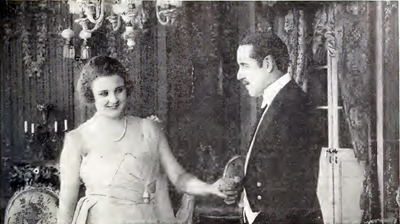 Still from the American film My Lady Incog (1916) with Hazel Dawn and an unidentified actor.